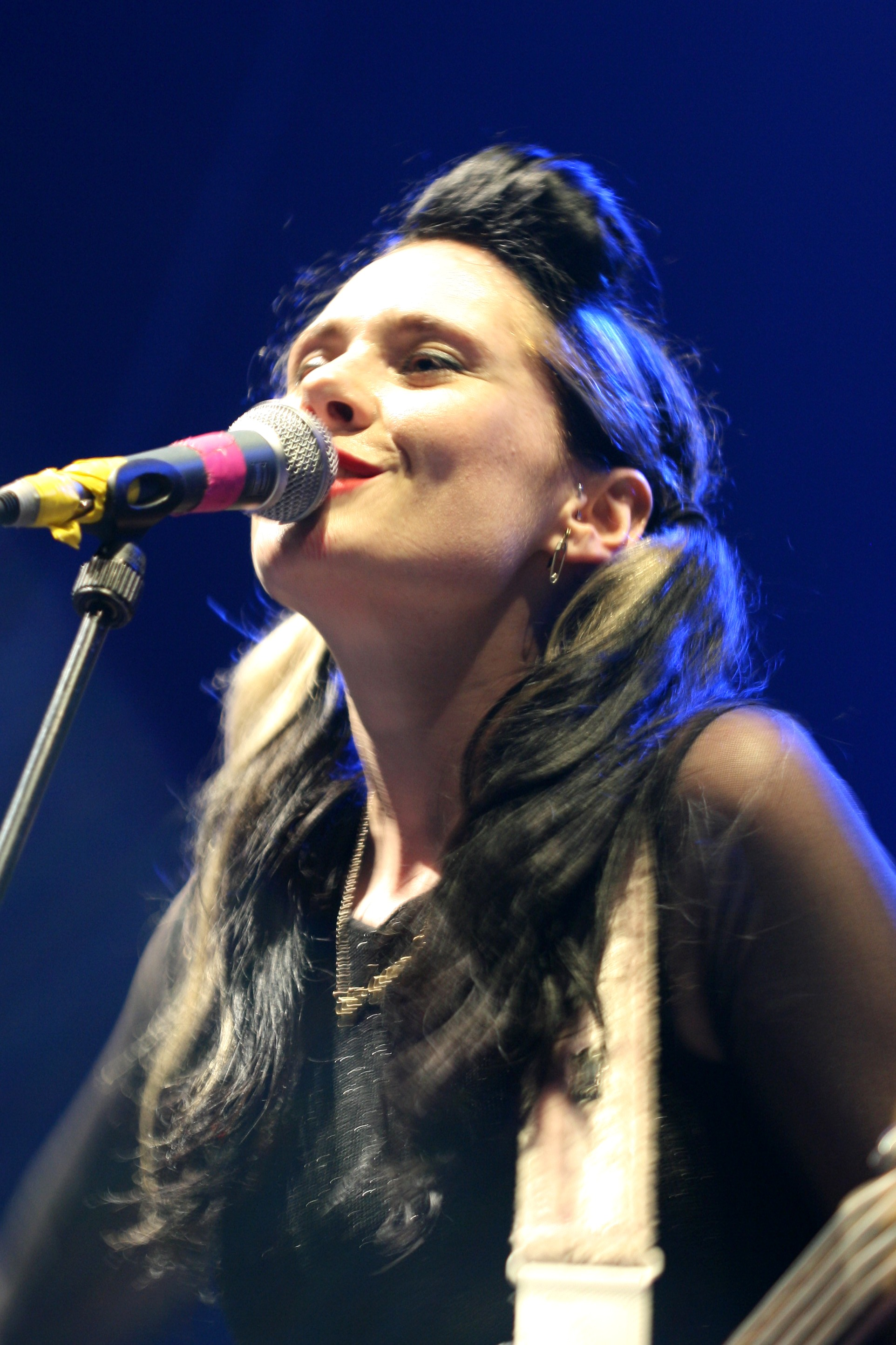 Kate Nash stands on the Clubstage of Rock im Park-Festival 2013. Festivalsommer This photo was created with the support of donations to Wikimedia Deutschland in the context of the CPB project "Festival Summer".